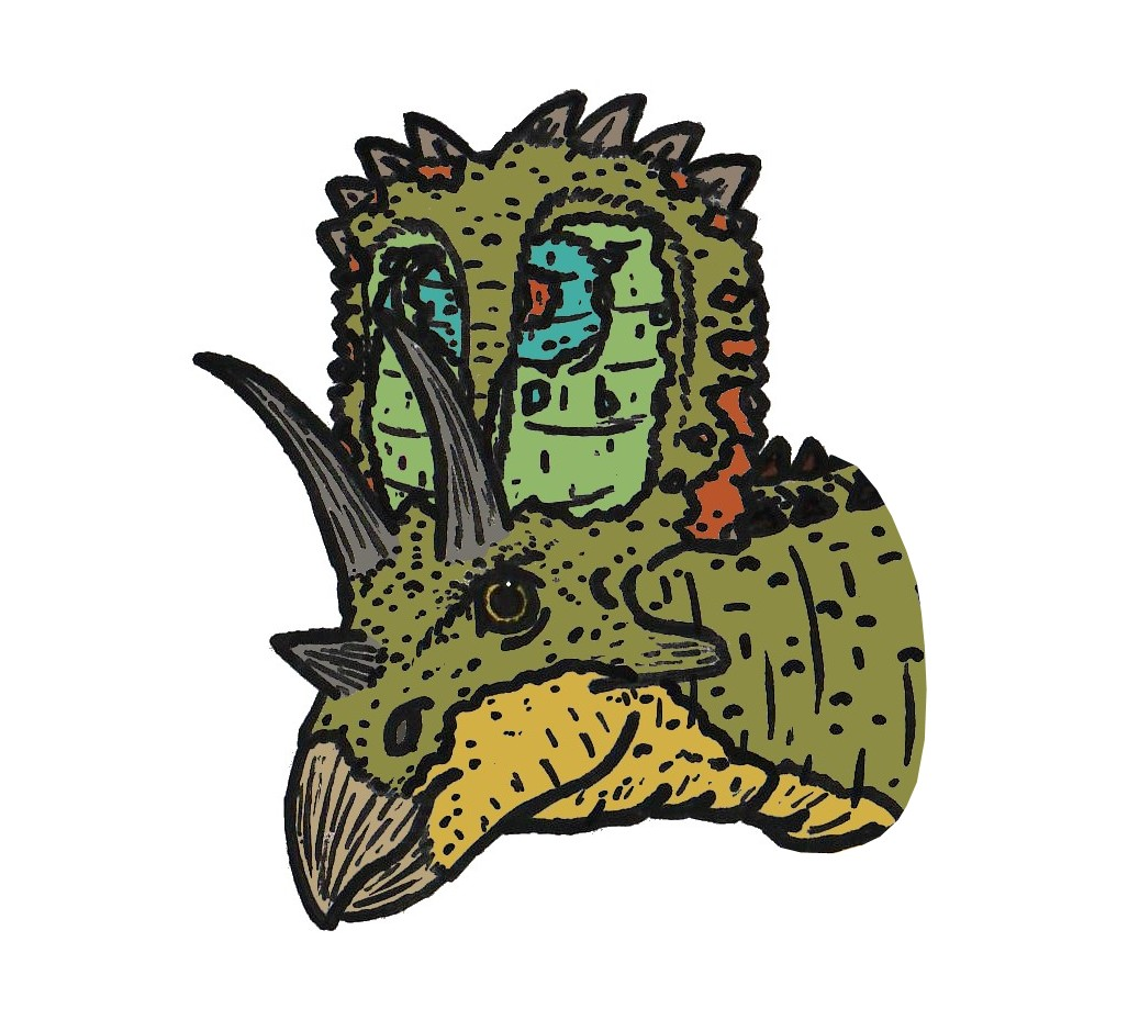 Anchiceratops was a ceratopsid, the family of horned planteating dinosaurs from late cretaceous America.